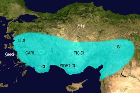 Anatolian peoples in 1nd millenium BC. Own elaboration from File:Anatolia composite NASA.png. Source: Francisco Villar, Lo Indoeuropeos y los origenes de Europa, Italian version, p. 354